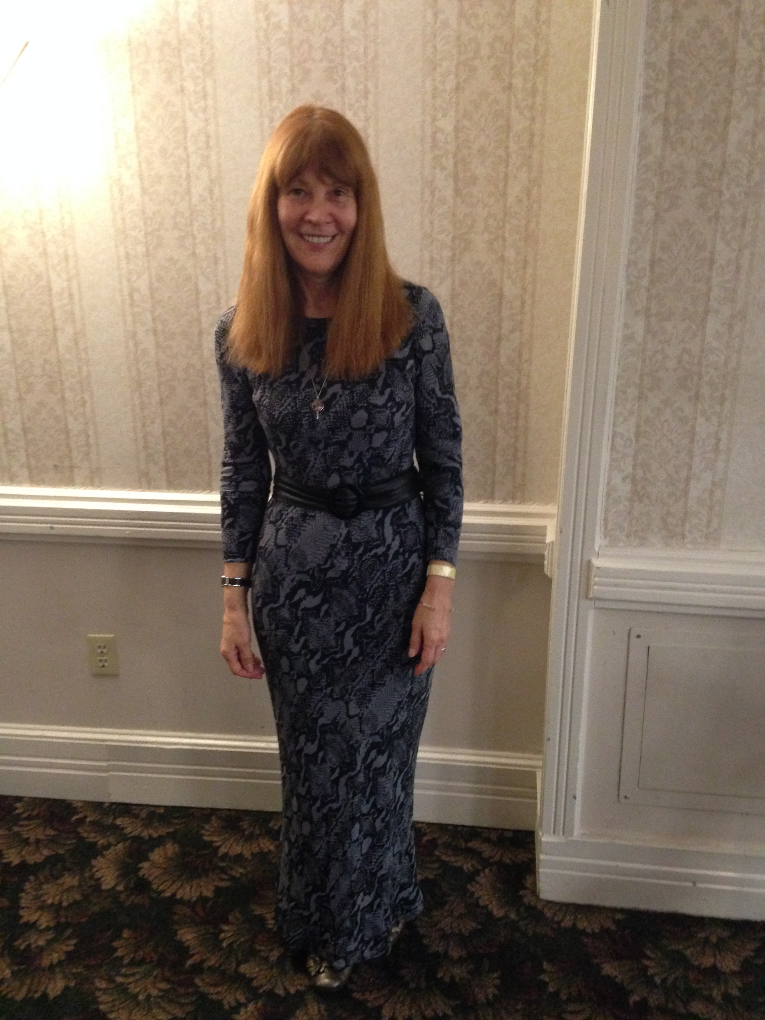 Image of Vivianne Crowley taken in Northampton, Massachusetts.